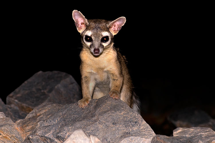 Ringtail in Phoenix, Arizona -- Diné bizaad: Mąʼii dootłʼizhí